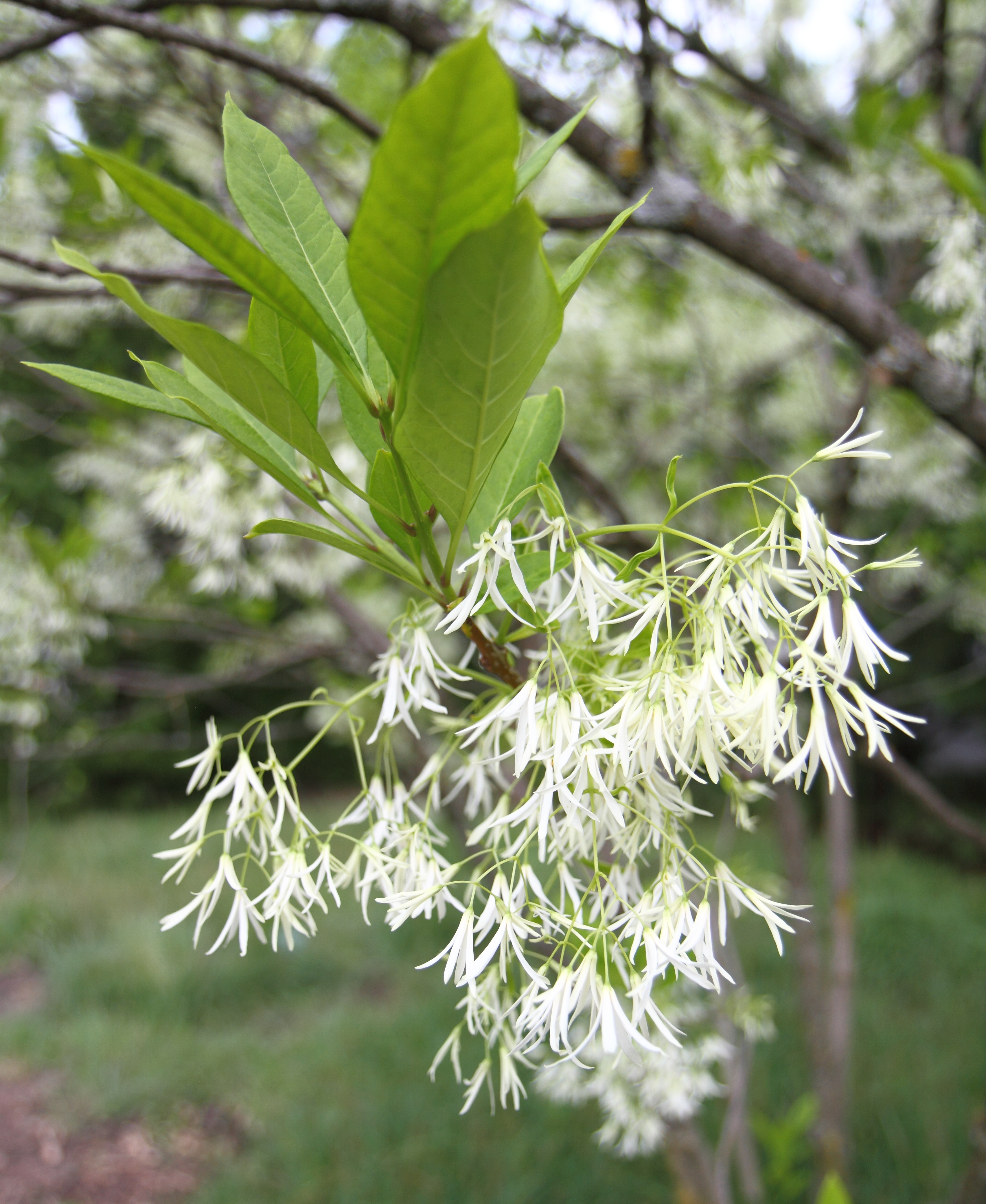 White Fringetree flowers, Montreal Botanical Garden, Montreal, Quebec